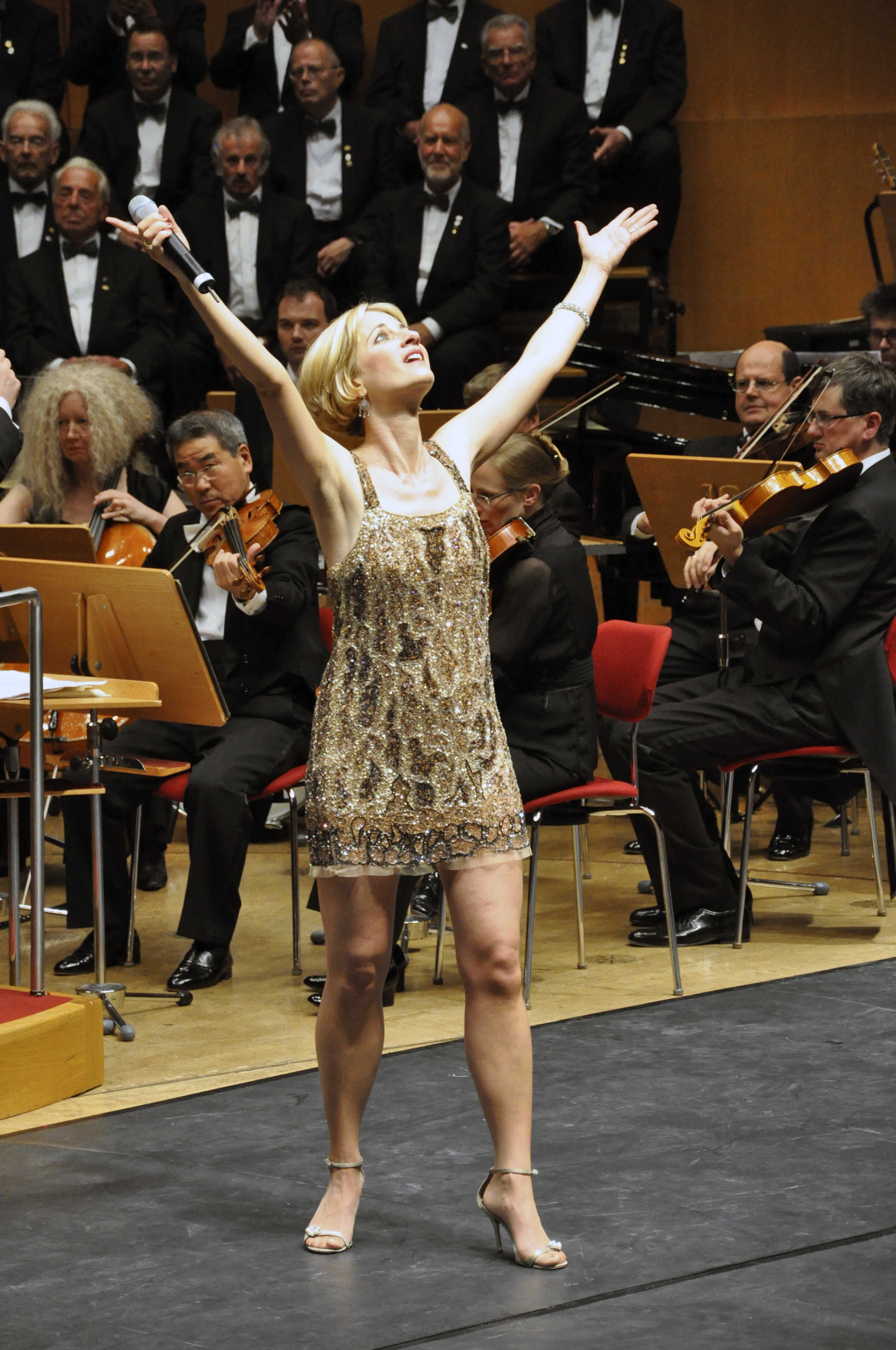 Picture from Berlin-Paris - Concert in Cologne Philharmonic, Germany, with Adrienne Haan (Picture), the Deutz-Choir Cologne, Northwest German Philharmonic, artistic Director Heinz Walter Florin.